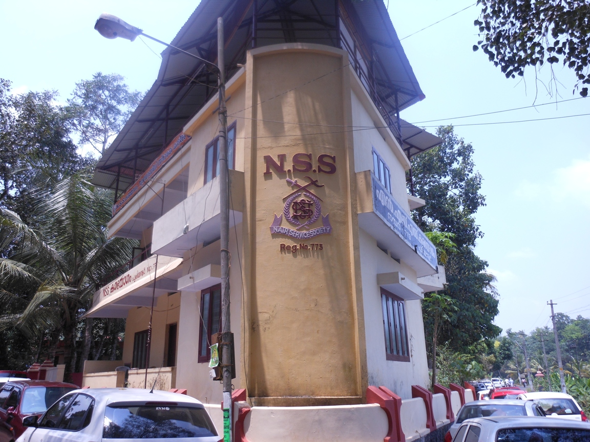 NSS Building, Puliyannoor